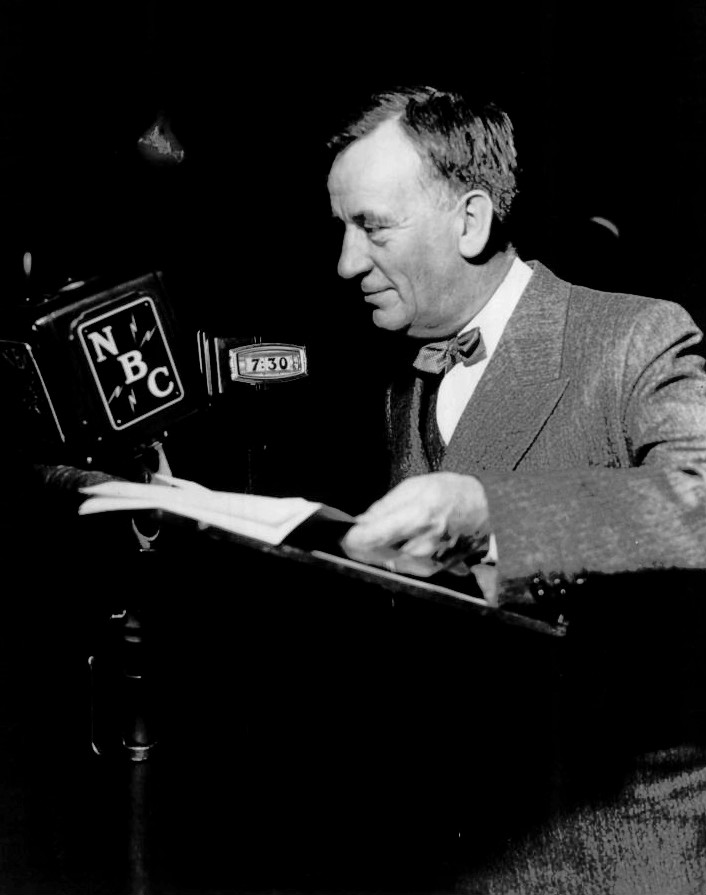 Photo of poet Edgar Guest from his NBC Radio program.